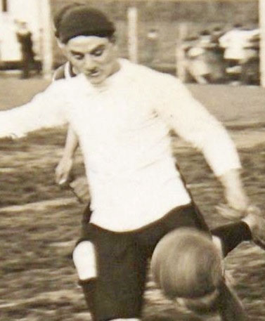 Antique photo of Vicente Cincotta. Cincotta was a former footballer and the first president of Club Atlético All Boys. He Was President for several periods and he devoted his life to his club, which he almost only created.